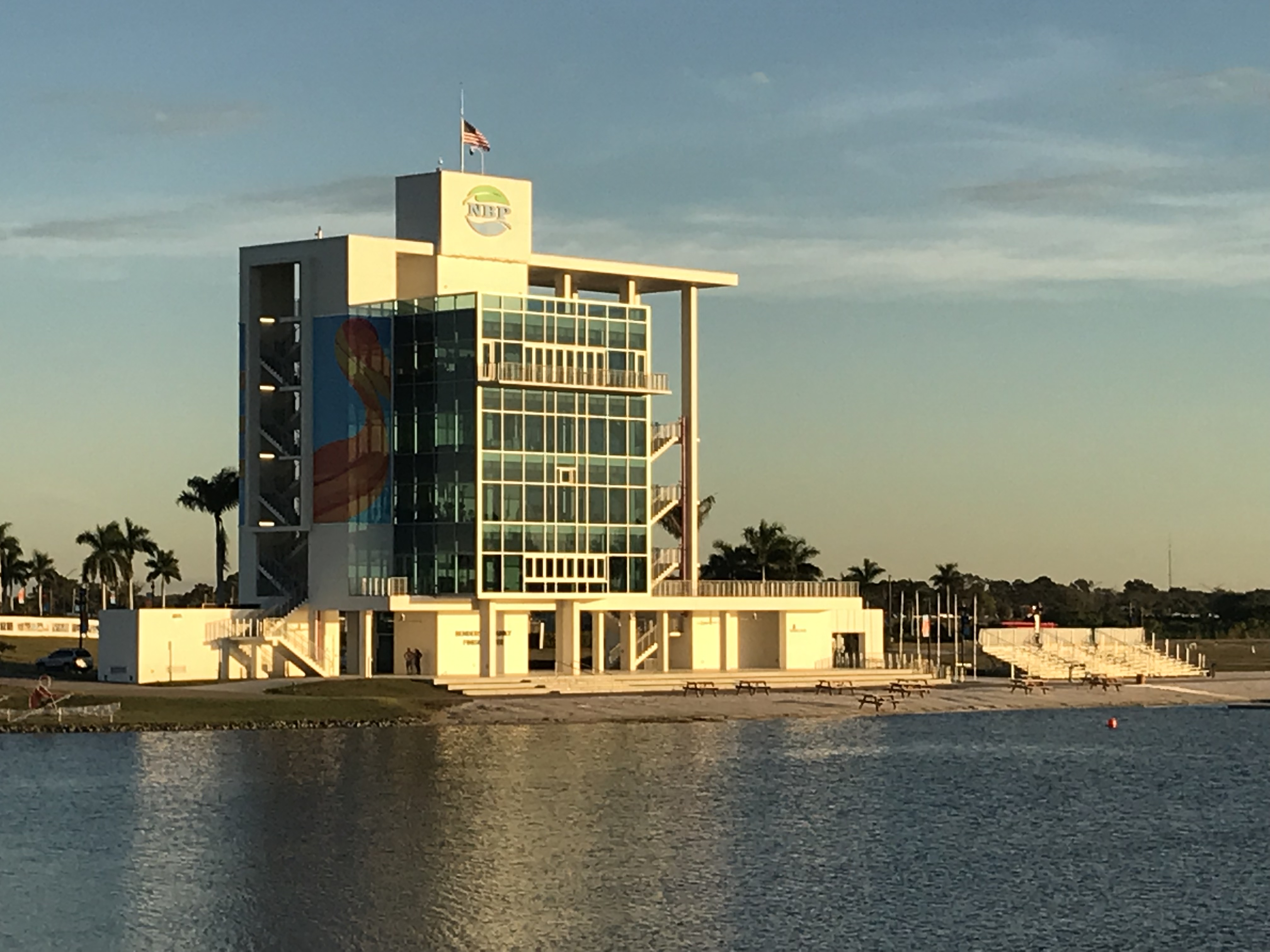 Nathan Benderson Park - Finish Tower (Guy Peterson Architect, FAIA)